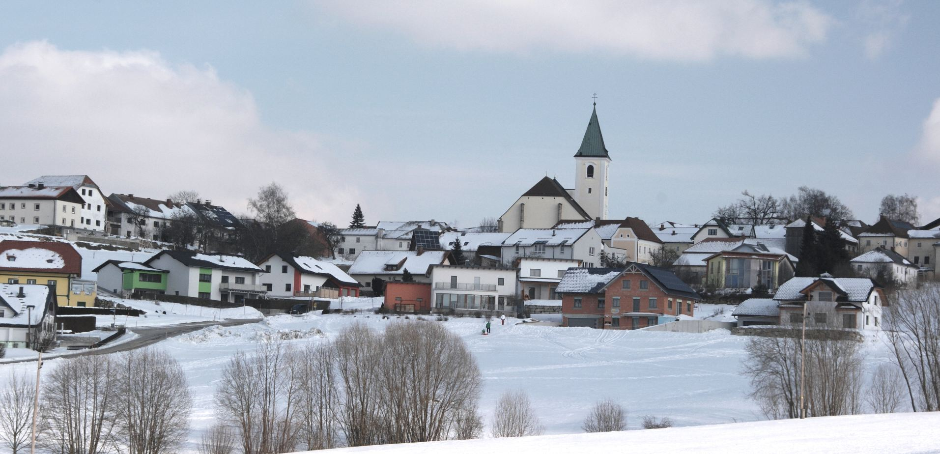 St. Leonhard bei Freistadt, Upper Austria